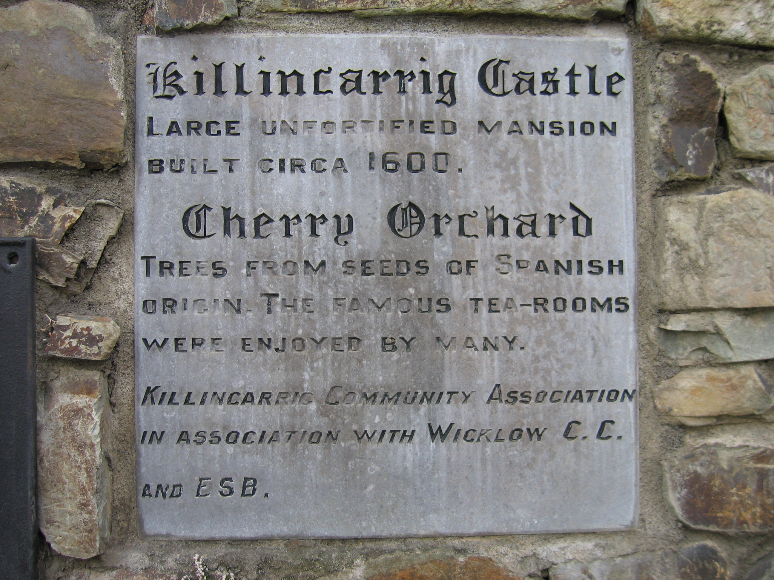 In Killincarrig Village, opposite the Orchard Pub (Sarah777 16:04, 20 March 2007 (UTC))